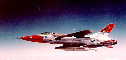 Republic F-105B-1-RE (SN 54-0103, the fourth pre-production F-105B built)